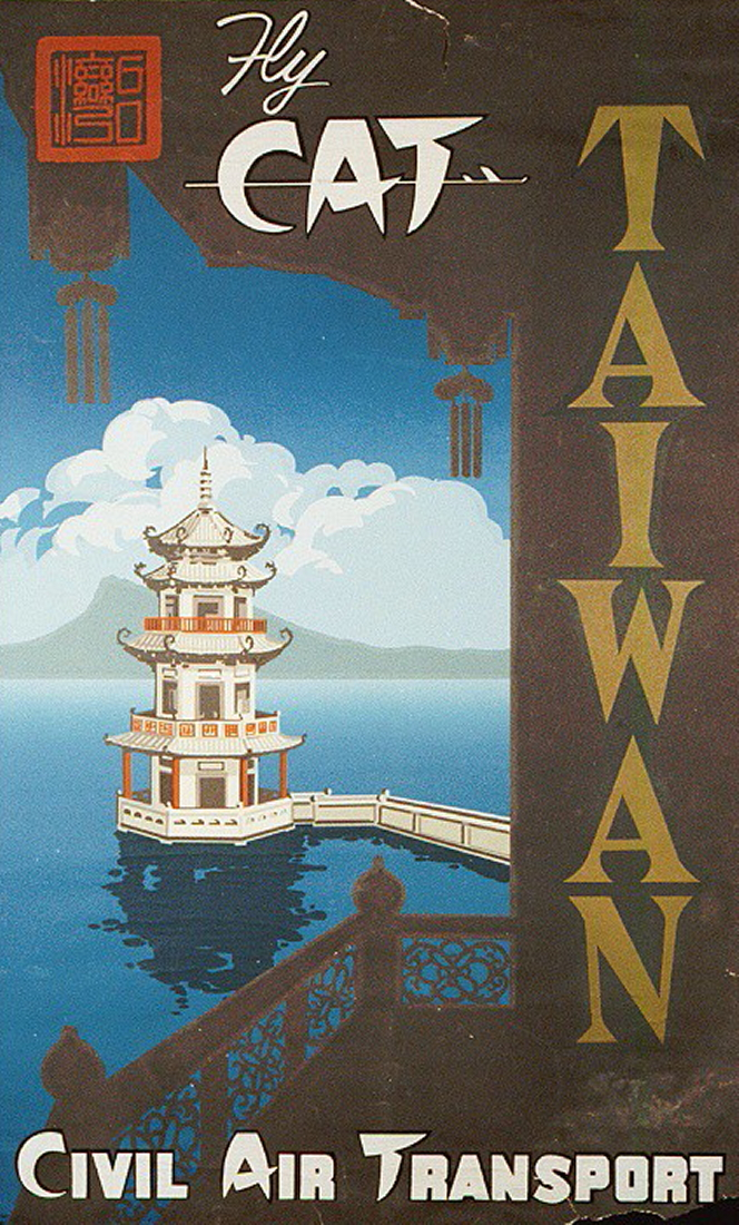 Poster from the Don Thomas Collection. Mr. Thomas was a collector of aircraft memorabilia who donated several posters to the San Diego Air and Space Museum. Repository: San Diego Air and Space Museum Archive